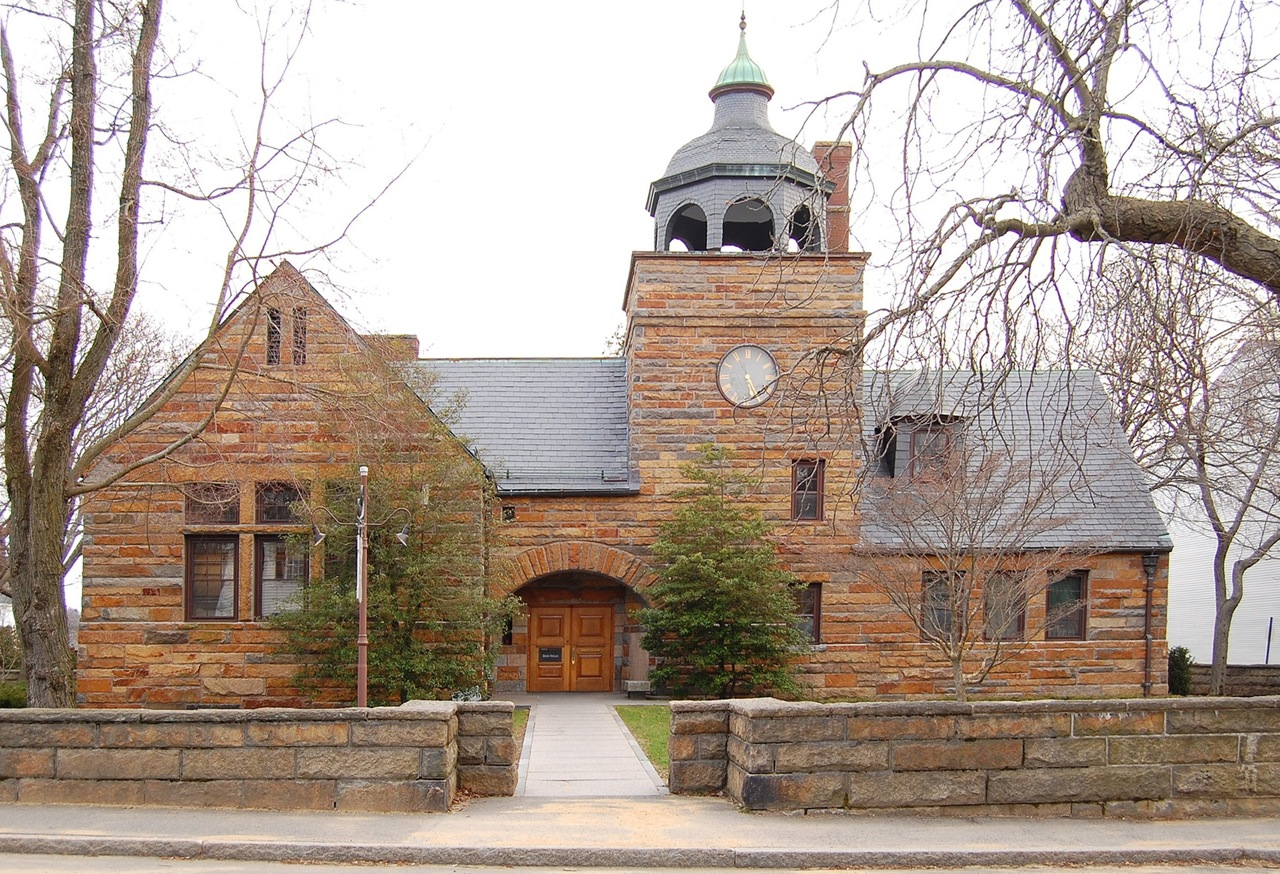 Public library of Manchester-by-the-Sea, Massachusetts.